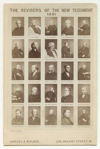 Photograph of the Bible translators who translated the Revised Version of the New Testament: Joseph Angus (1816-1902), Baptist minister and educationist; Edward Bickersteth (1814-1892), Dean of Lichfield; Joseph Williams Blakesley (1808-1885), Dean of Lincoln; David Brown (1803-1897), Clergyman, writer and professor; John Eadie (c1814-1876), Biblical scholar; Charles John Ellicott (1819-1905), Bishop of Gloucester; Fenton John Anthony Hort (1828-1892), Biblical scholar and theologian; William Gilson Humphry (1815-1886), Church of England clergyman and biblical scholar; Benjamin Hall Kennedy (1804-1889), Headmaster and classical scholar; William Lee (1815-1883), Church of Ireland clergyman; Joseph Barber Lightfoot (1828-1889), Biblical scholar and bishop of Durham; William Milligan (1821-1893), Church of Scotland minister and biblical scholar. Sitter in 2 portraits; George Moberly (1803-1885), Bishop of Salisbury; William Fiddian Moulton (1835-1898), Biblical scholar; Samuel Newth (1821-1898), College head; Edwin Palmer (1824-1895), Archdeacon, classicist and professor; Alexander Roberts (1826-1901), Biblical schola; Robert Scott (1811-1887), Lexicographer and Dean of Rochester; Frederick Henry Ambrose Scrivener (1813-1891), Biblical scholar; George Vance Smith (circa 1816-1902), Unitarian minister and biblical scholar; Arthur Penrhyn Stanley (1815-1881), Dean of Westminster; Richard Chenevix Trench (1807-1886), Church of Ireland archbishop of Dublin, poet and philologist; Charles John Vaughan (1816-1897), Headmaster and dean of Llandaff; Brooke Foss Westcott (1825-1901), Biblical scholar and bishop of Durham; Charles Wordsworth (1806-1892), Scottish Episcopal bishop of St Andrews, Dunkeld and Dunblane.